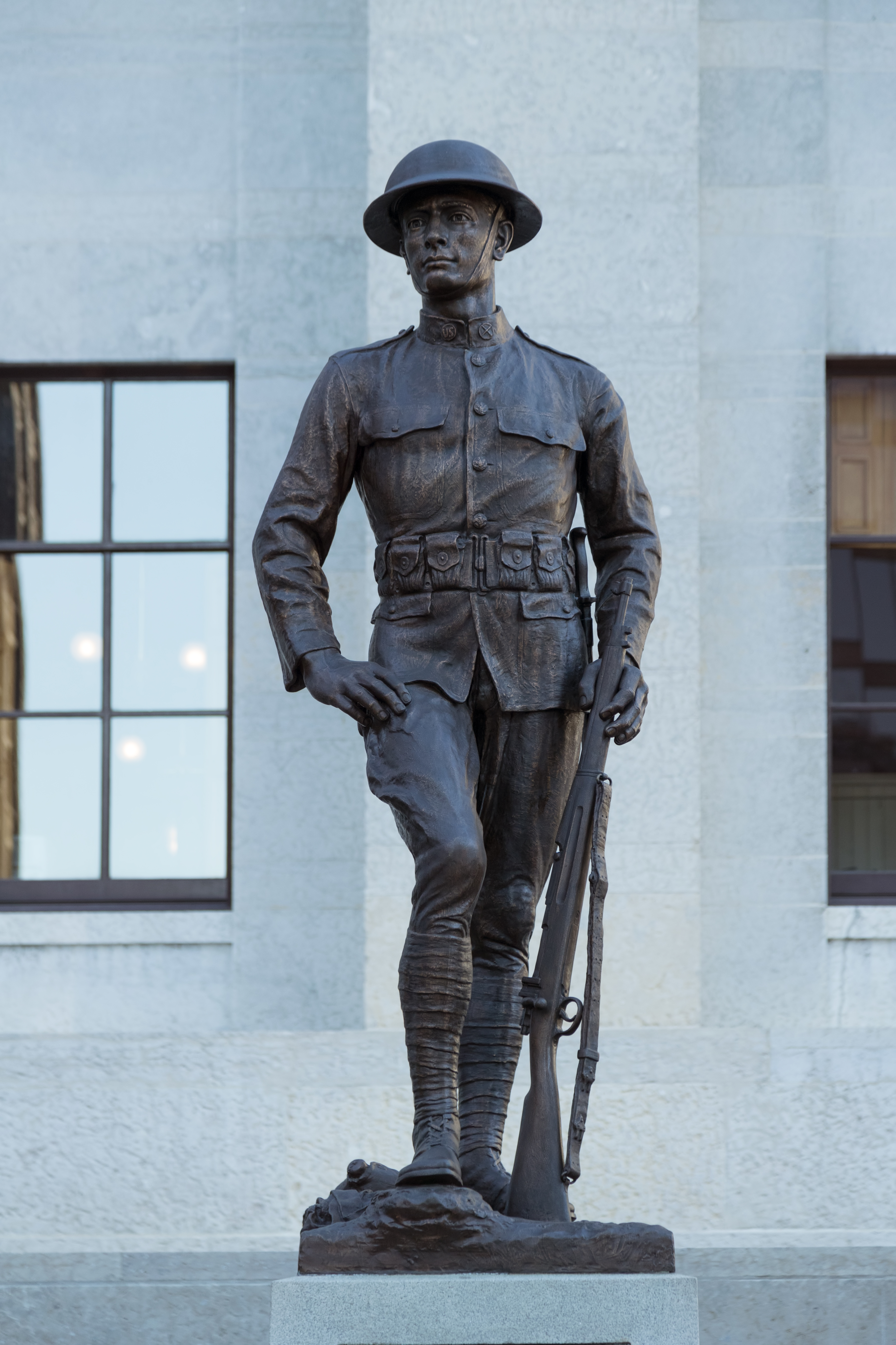 Columbus, Ohio photograph by Carol M. Highsmith.